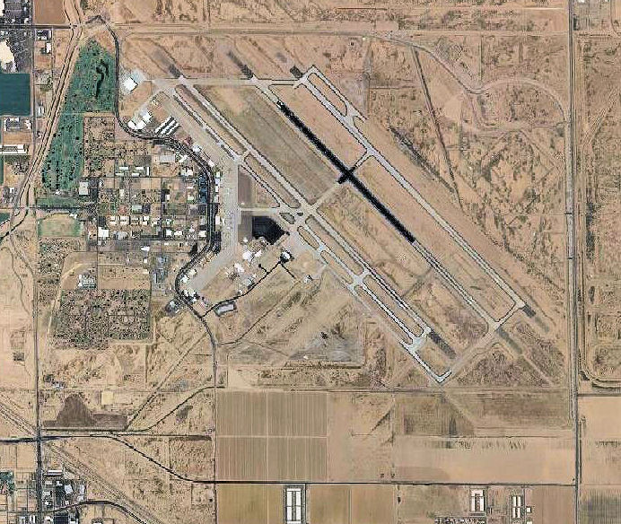 USGS digital orthophoto of Phoenix-Mesa Gateway Airport in Arizona